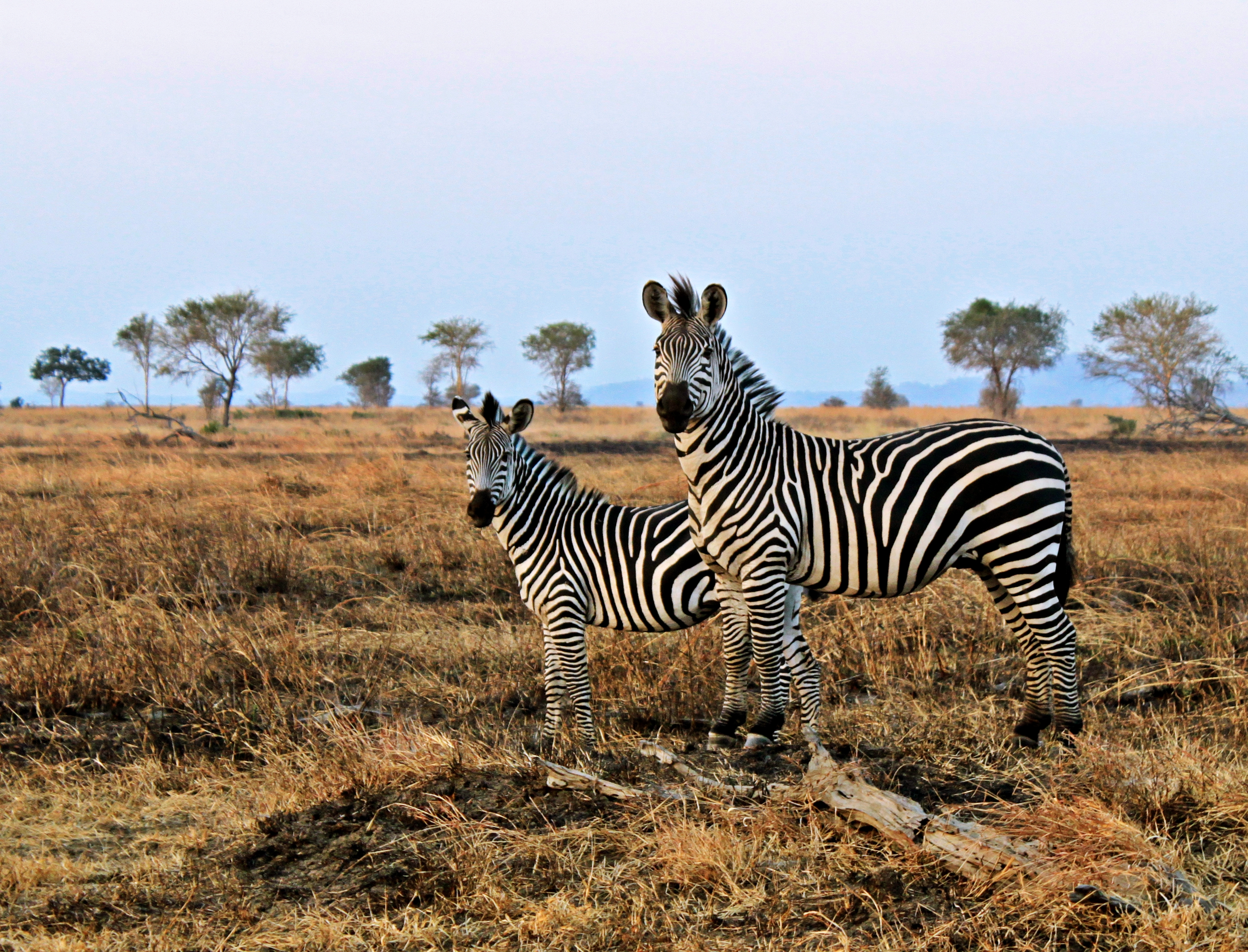 A photo showing two Zebras in Mikumi National Park